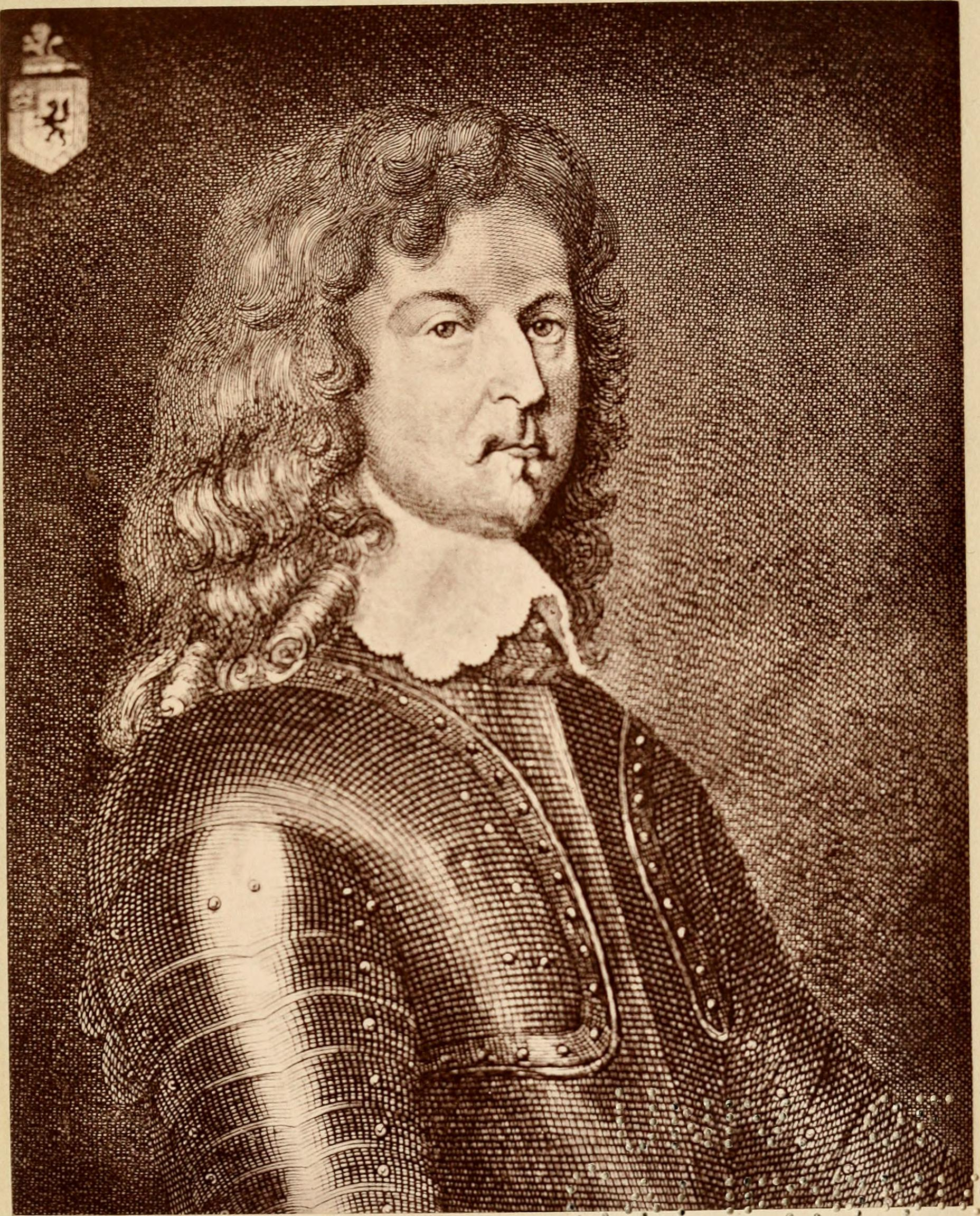 Portrait of Sir John Boys